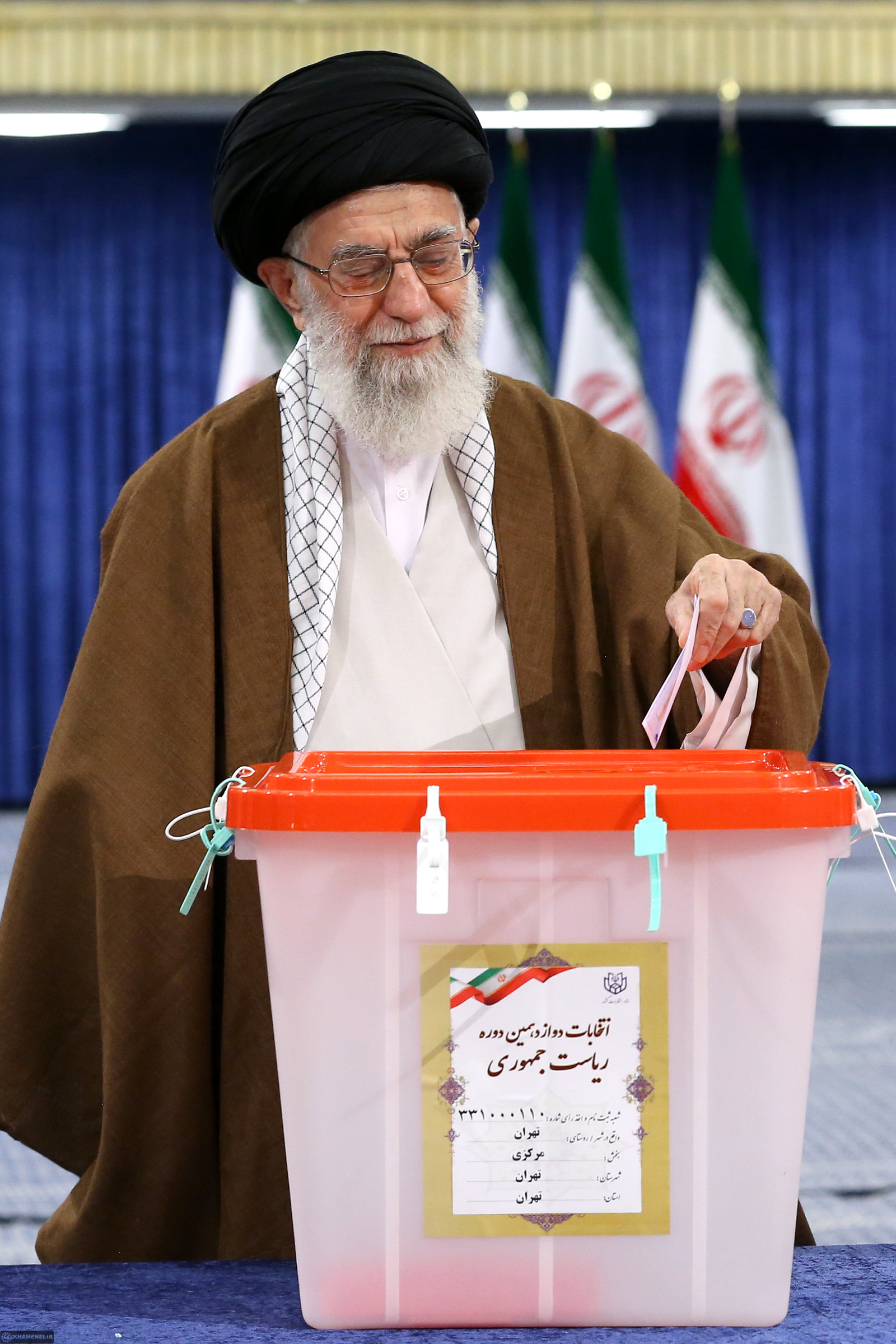 Ayatollah Sayyed Ali Khamenei, Leader of the Islamic Republic of Iran in the Iranian Presidential Elections, 2017